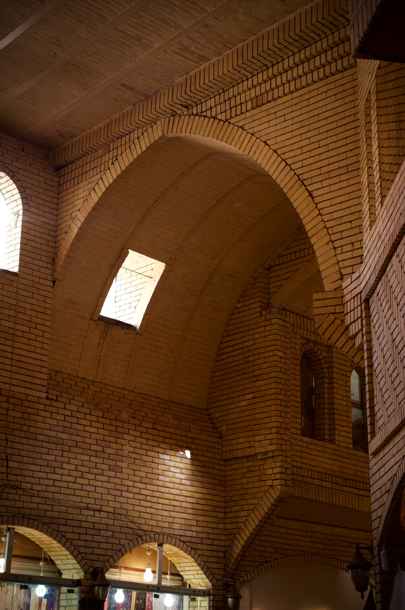 Erbil Bazaar in Hawler (Erbil), Kurdistan Regional Government